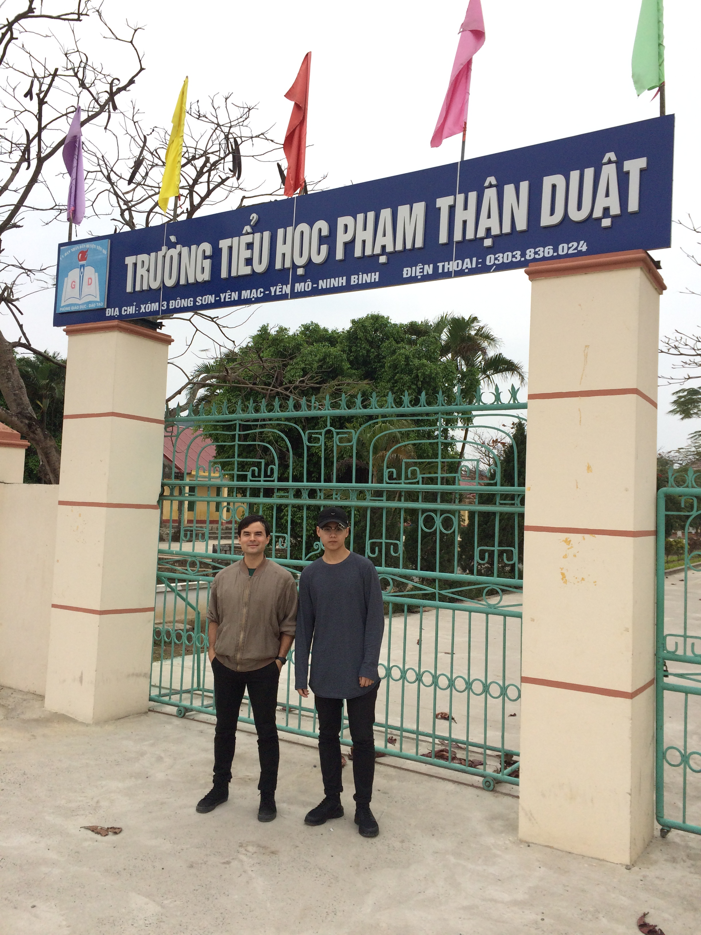 Photo of the school named after Pham Than Duat in Ninh Binh province, with two of his descendants